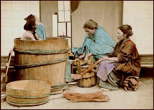 Samurai having a bath in a wooden-tub.